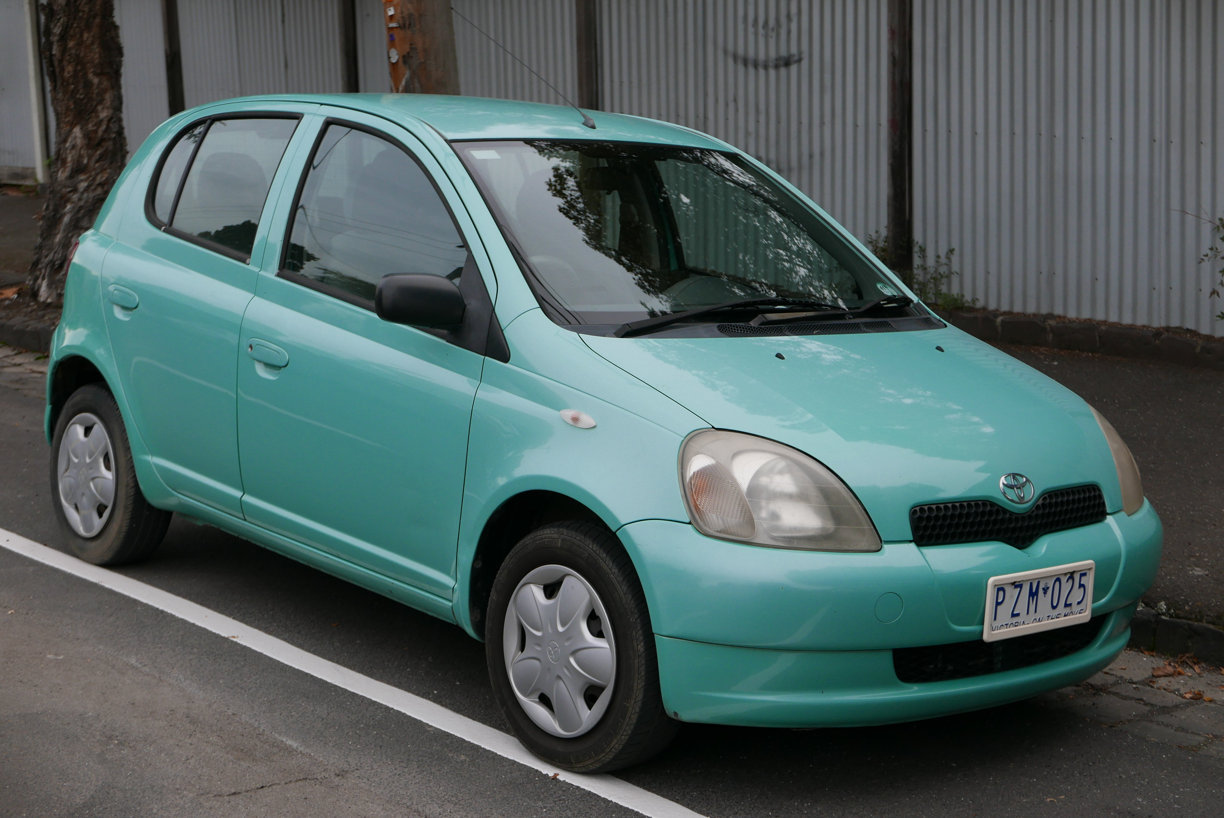 1999 Toyota Echo (NCP10R) 5-door hatchback. Photographed in Clifton Hill, Victoria, Australia. Vehicle registration enquiry results Jurisdiction Victoria Registration PZM025 Chassis code JTDKW133900018855 Engine code 2NZ1145423 Compliance date 1999-12 Year of manufacture 2000 (not a typo)